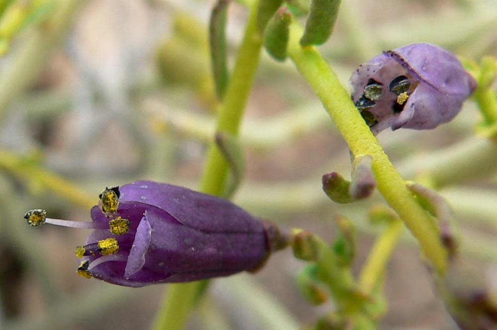 Photo of Thamnosma montana (turpentine plant) on the west side of Las Vegas, Nevada, just outside Red Rock Canyon